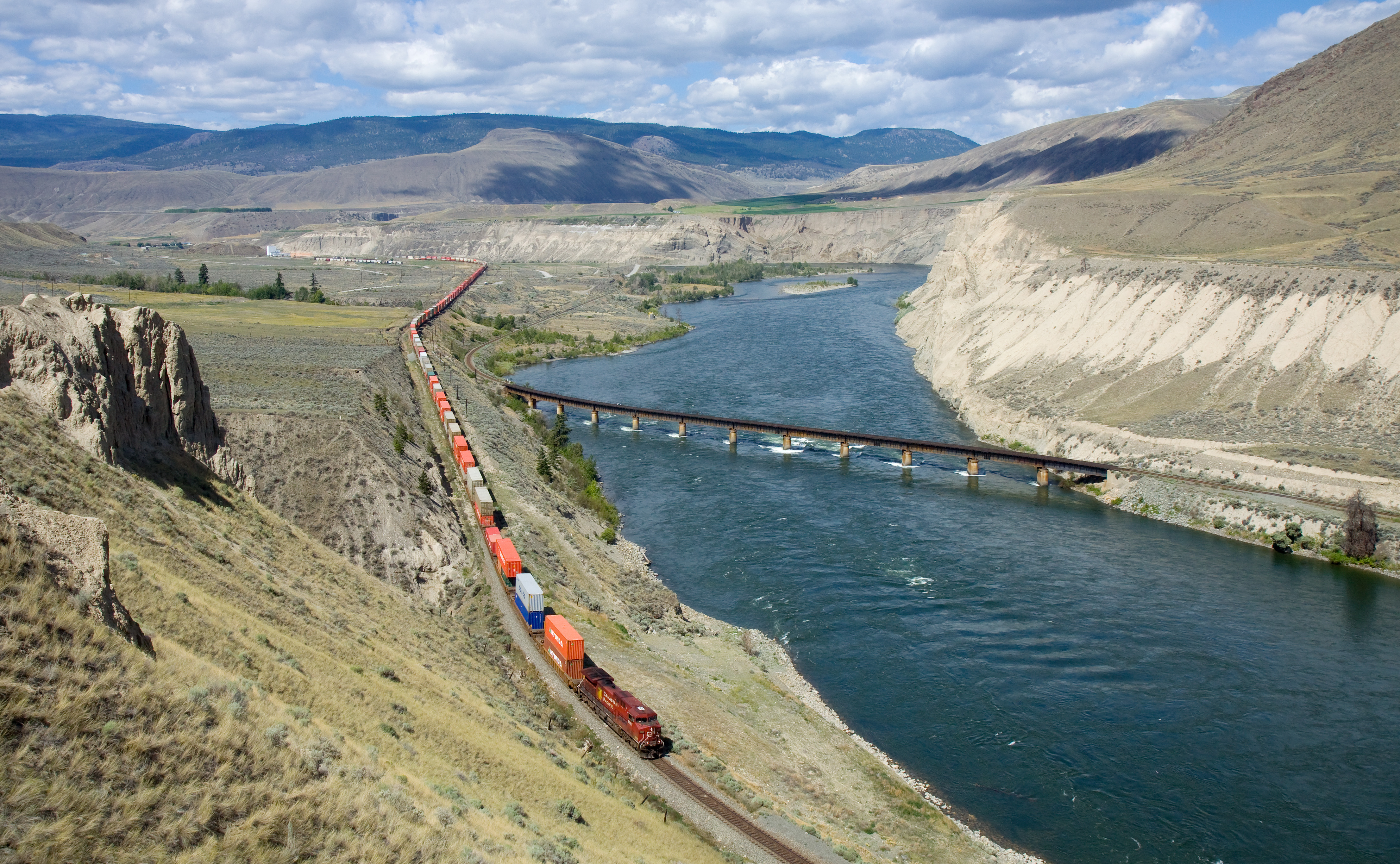 GE AC4400CW unit (probably 8517) of the Canadian Pacific Railway with an intermodal train on its way towards Kamloops. The picture was taken just outside Ashcroft, BC.